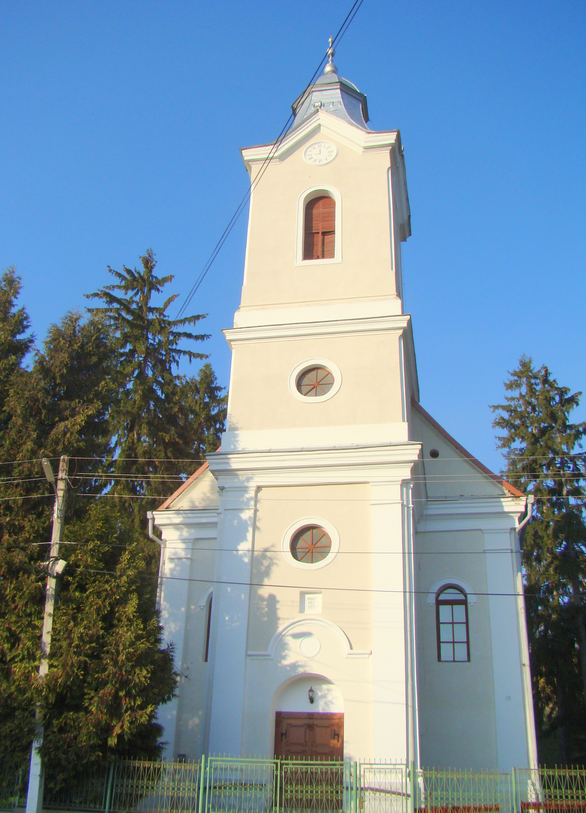 Reformed church in Mădăraș, Mureș County, Romania